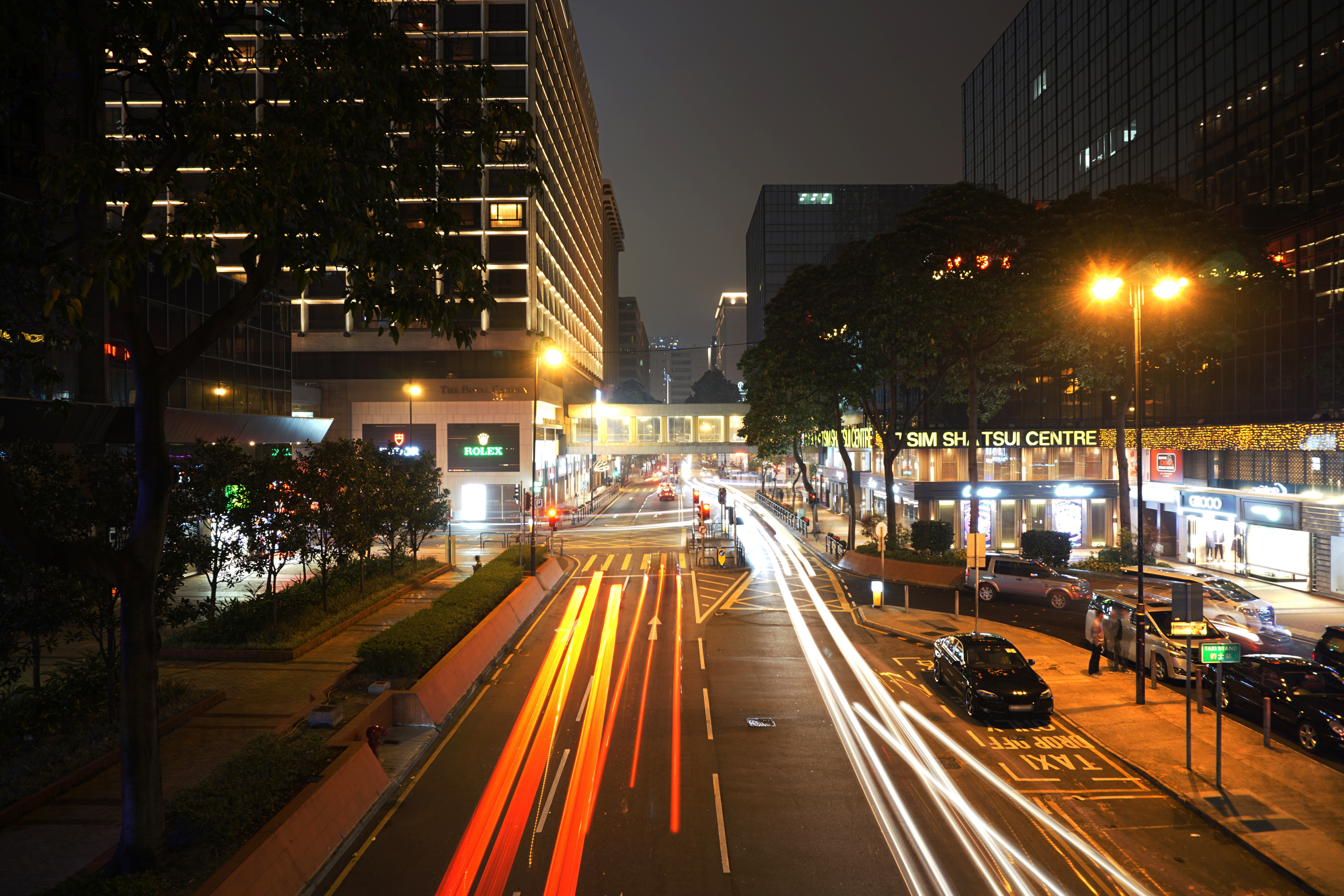 Mody Road in Tsim Sha Tsui, Hong Kong.